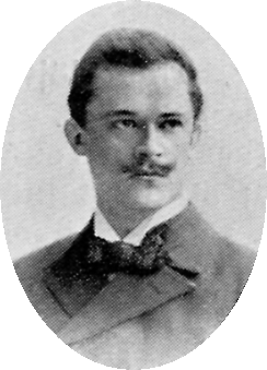 Image scanned from the book "Svenskt Porträttgalleri XX - Arkitekter, Bildhuggare, Målare m.fl. " ("Swedish Portrait Gallery XX - Architects, Sculptors, Painters, ") published 1901